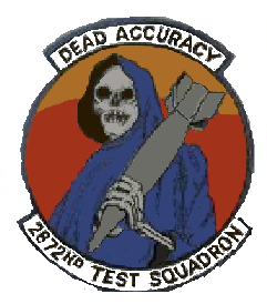 Emblem of the 2872d Test Squadron. Motto "Dead Accuracy"